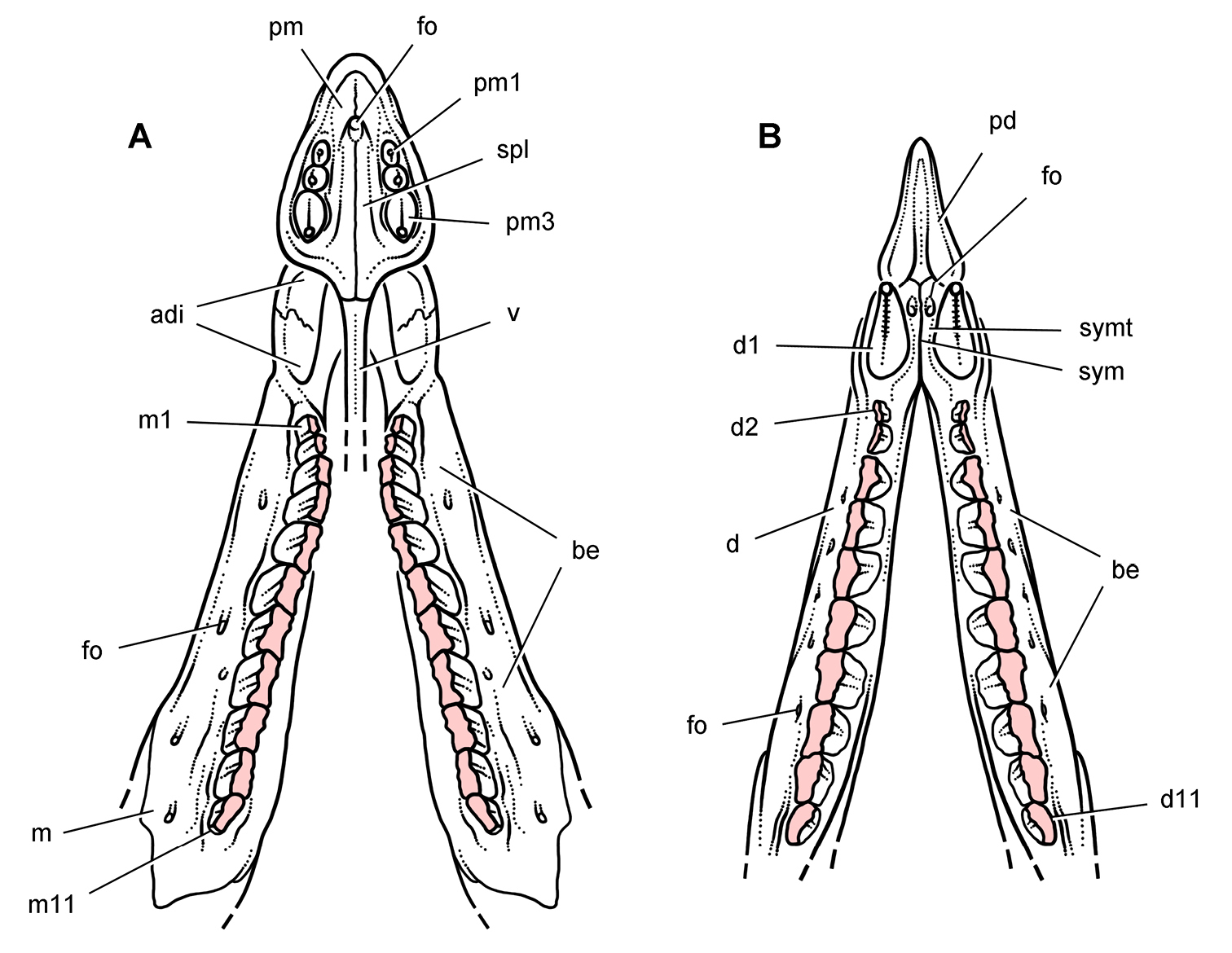 Jaws of the Heterdontosaurus tucki specimen SAM-PK-K1332. Pink tone indicates wear facets.